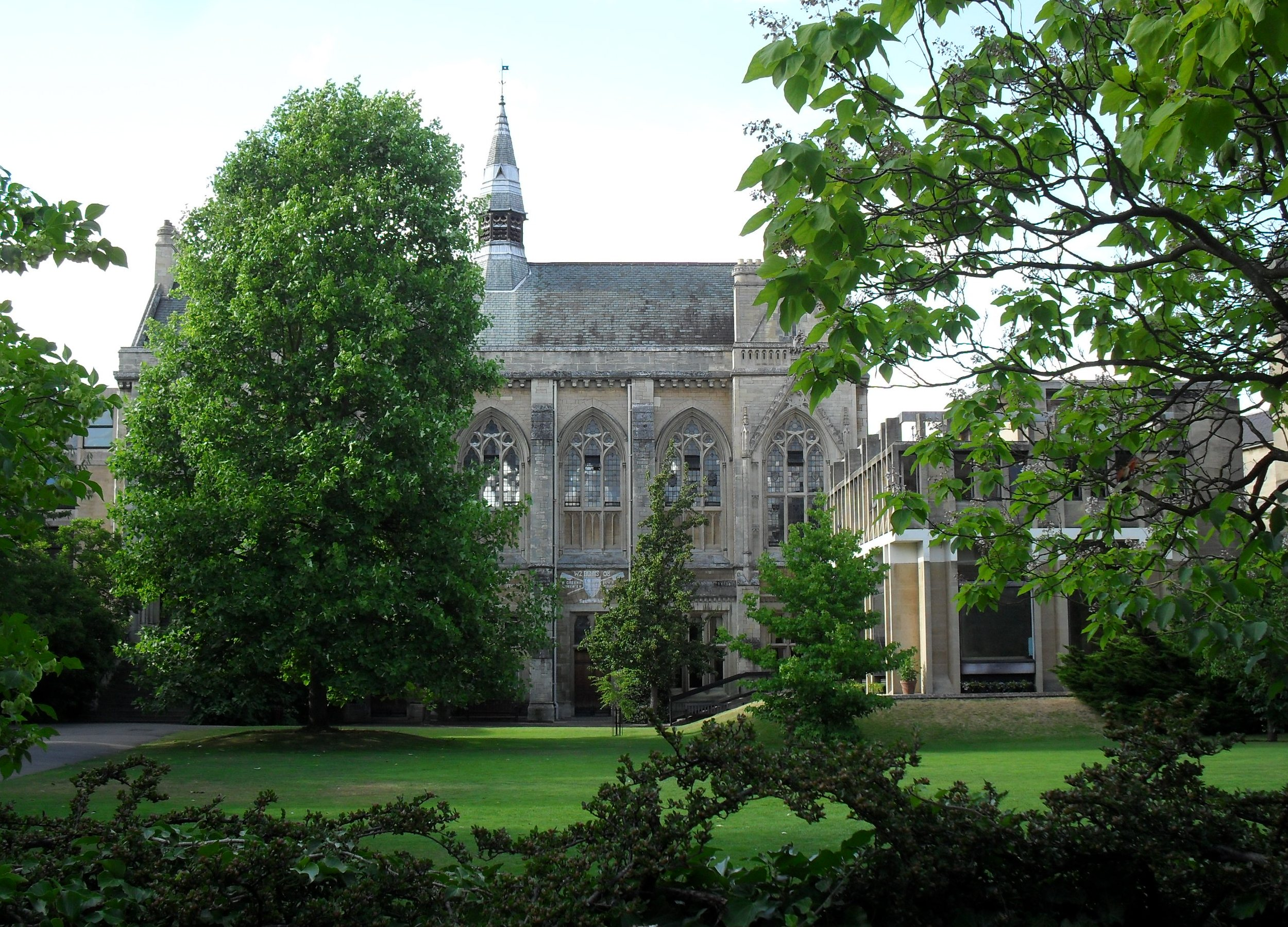 Alfred Waterhouse's Hall (built 1877; left of picture) and the 1960s Senior Common Room at Balliol College, Oxford. Taken from the Fellows' Garden.